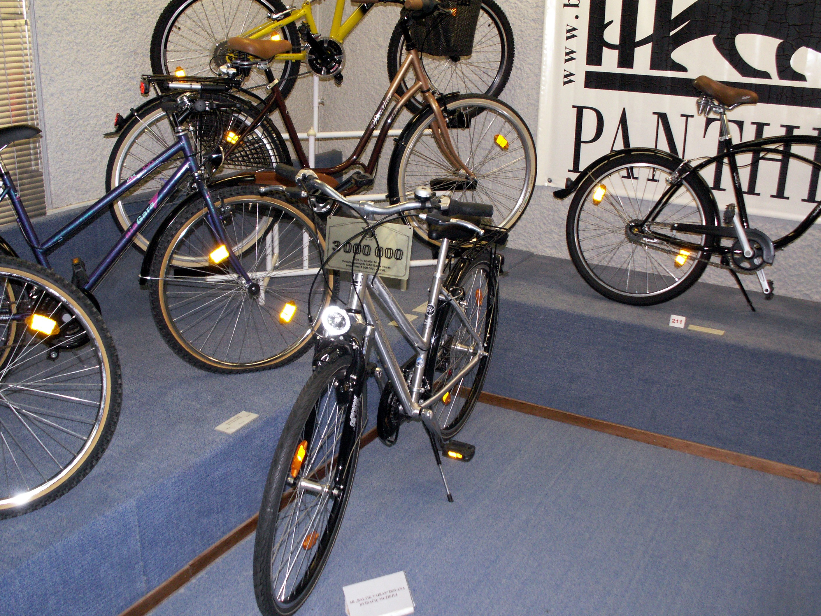 Cycling museum in Šiauliai, Lithuania